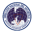 emblem of Direccion Nacional del Antartico - Instituto Antartico Argentino